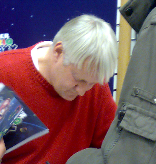 Charles Martinet (aka the voice of Mario) signing items for fans at GAME, Oxford street, in 2007